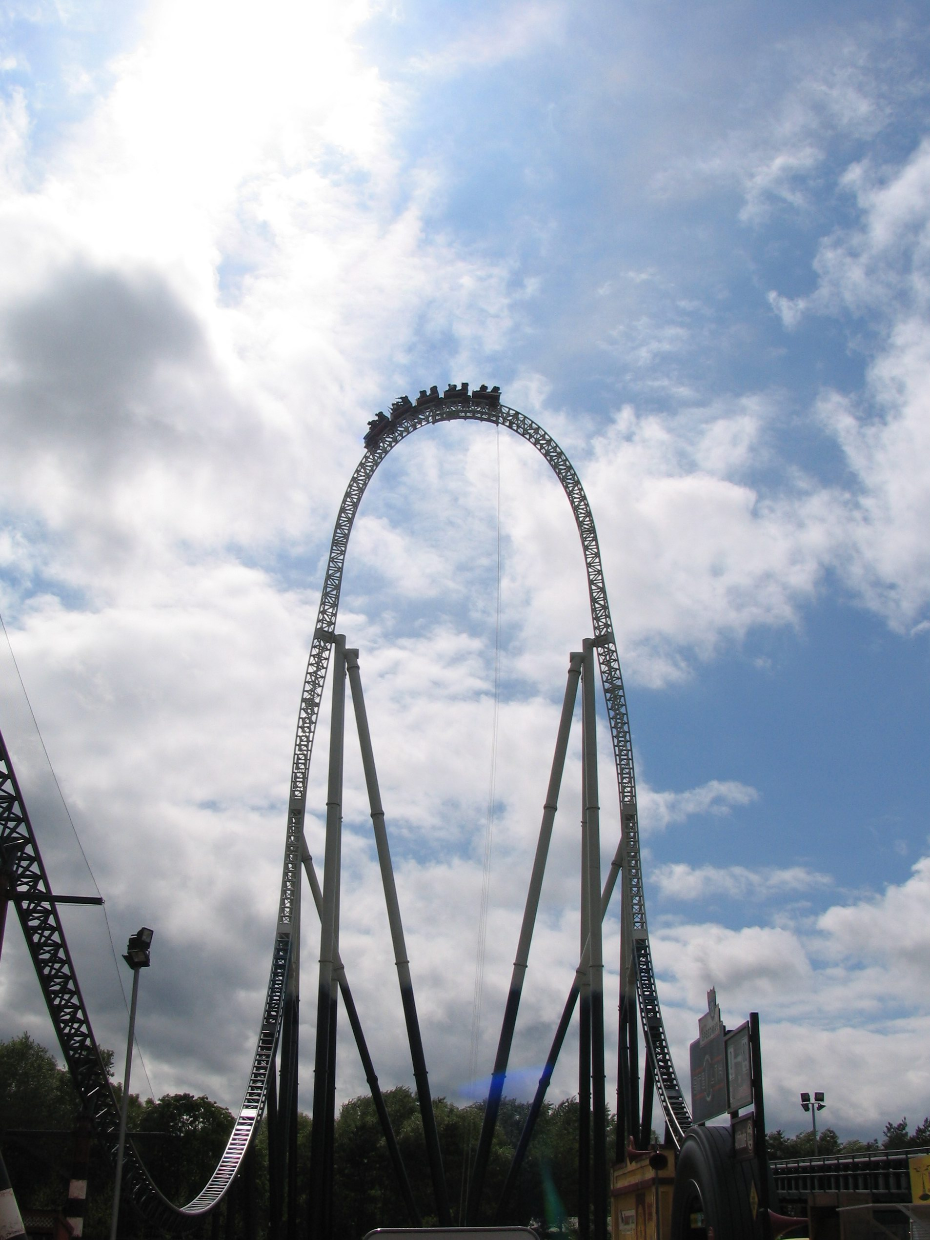 Stealth in Thorpe Park